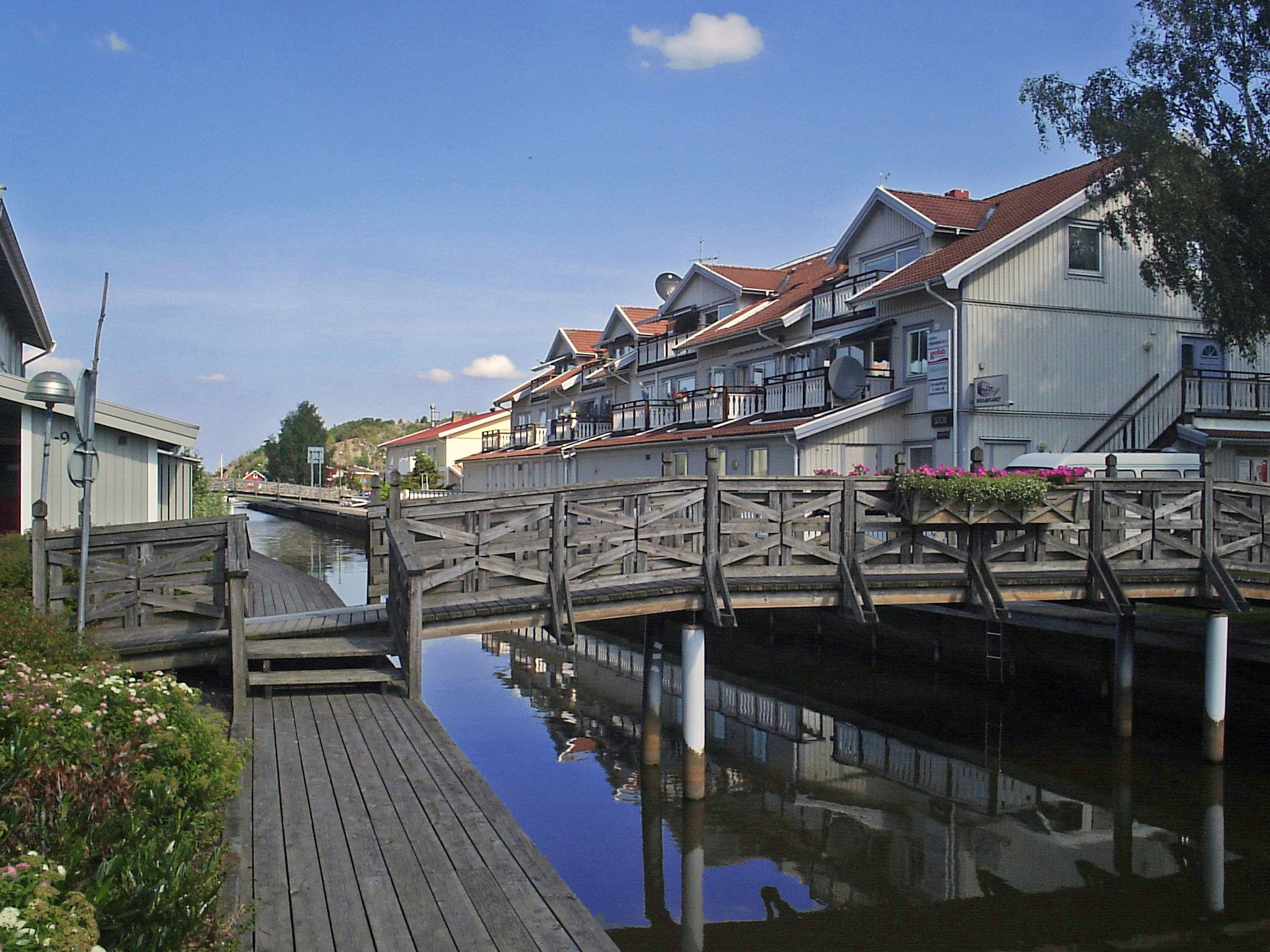 The river Henån passes through the locality of Henån, which is the seat of Orust Municipality at the west coast of Sweden. Orust is the third biggest island in Sweden, some 60 kilometres (approximately 37.3 miles) north of Gothenburg.